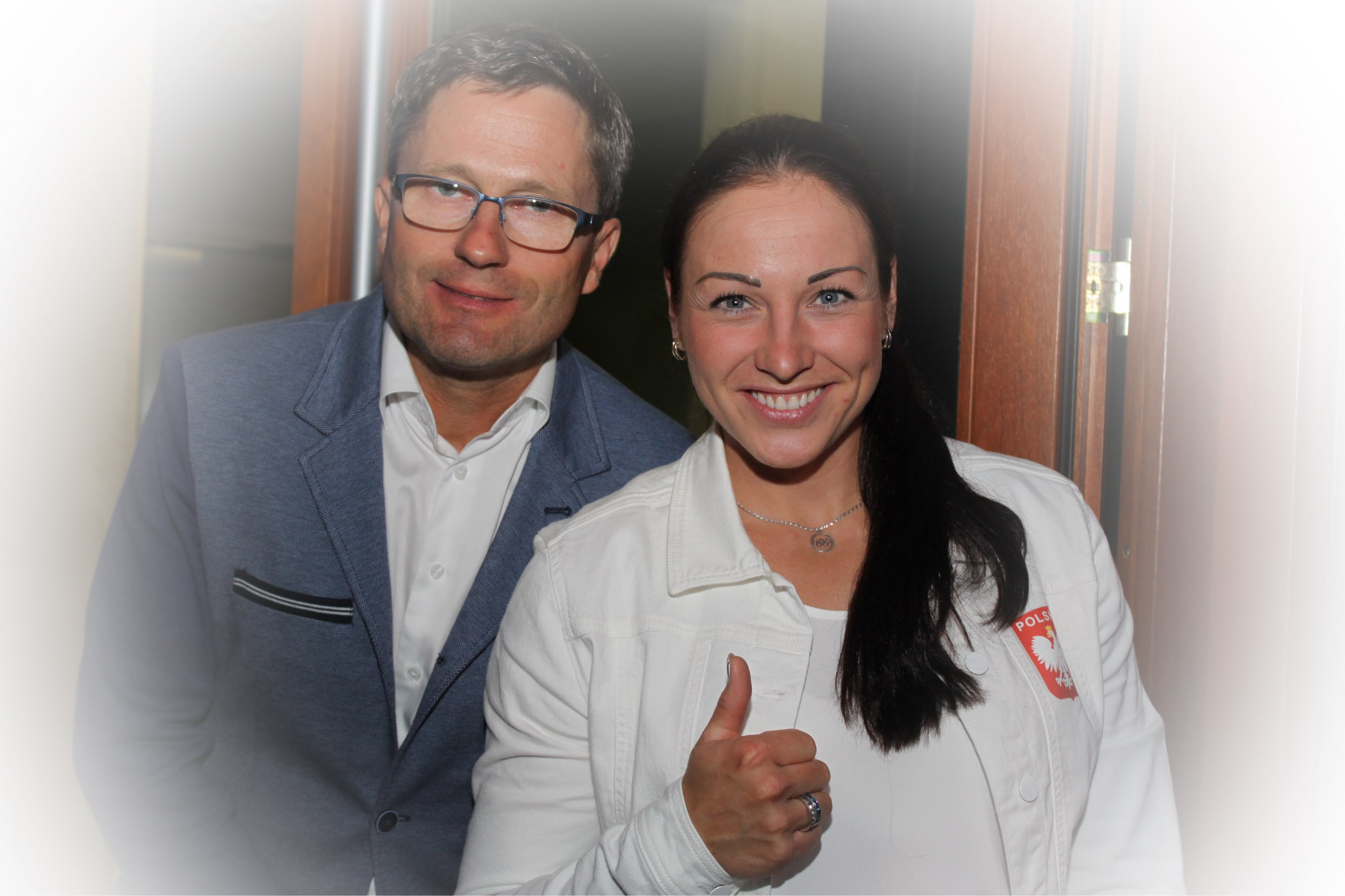 Beat Mikołajczyk and his trainer Tomasz Kryk in PKOL Warsaw 2016.